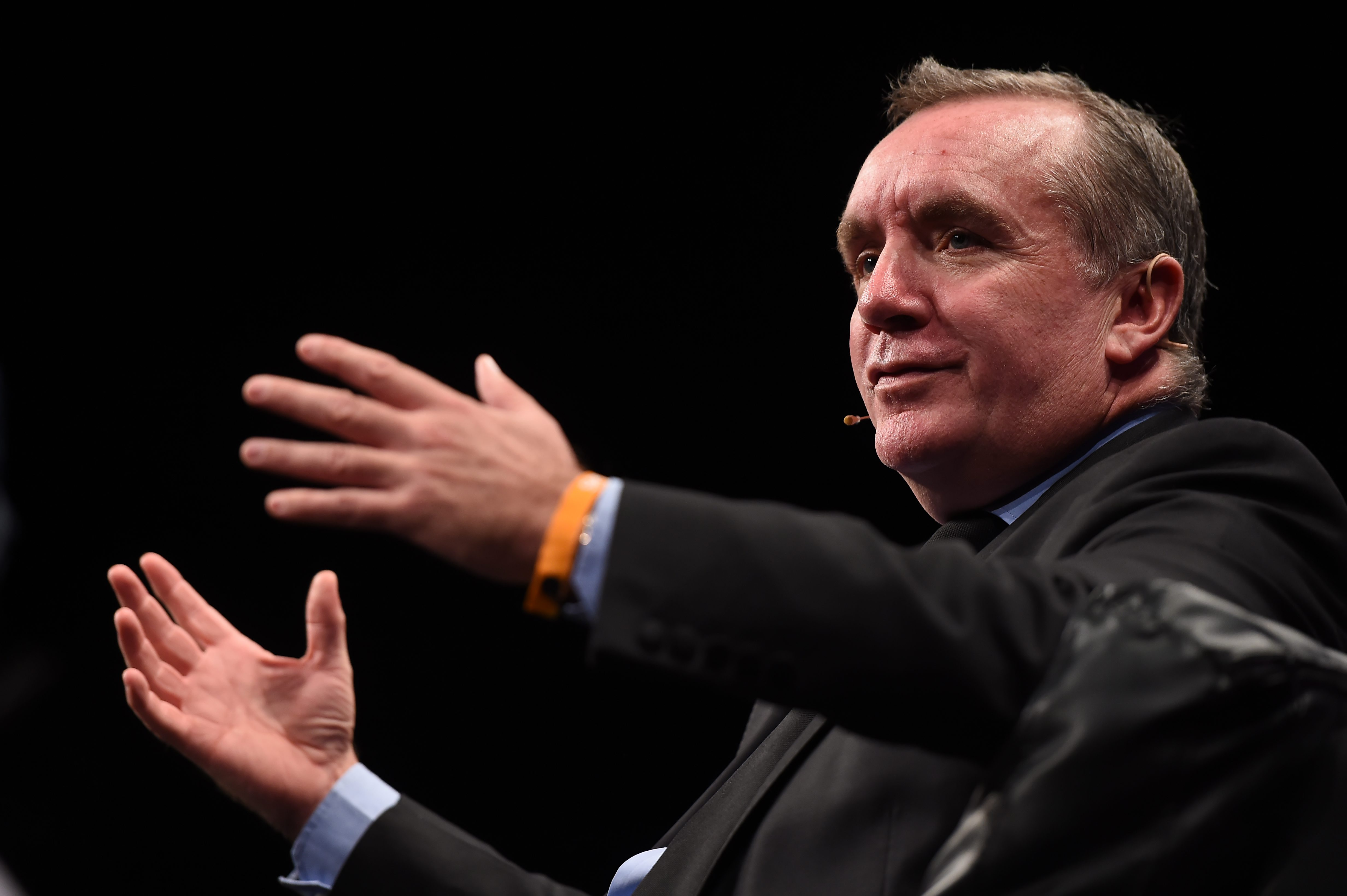 Ian Ayre, Sportsfile (Web Summit)